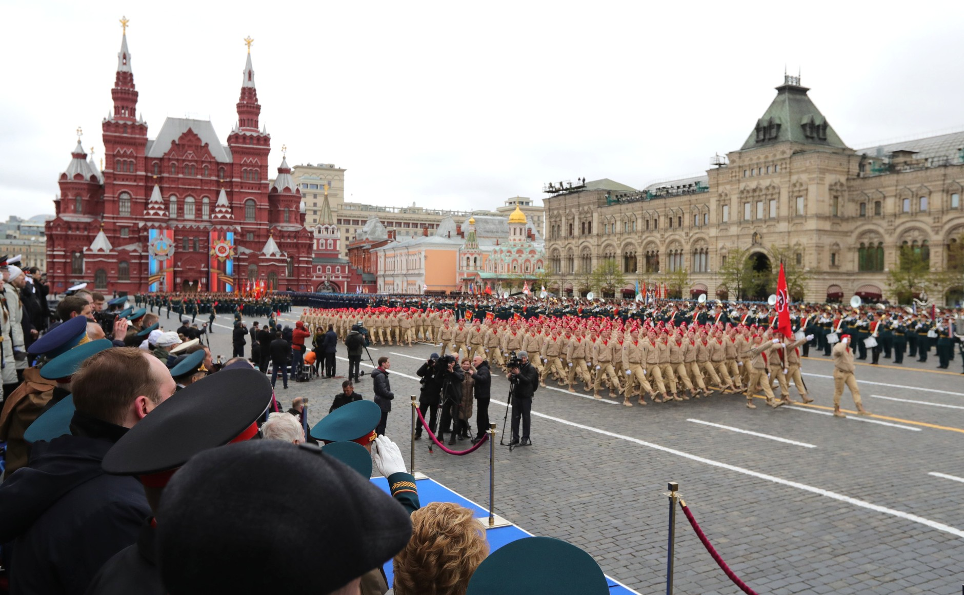 Military parade on Red Square 2017-05-09